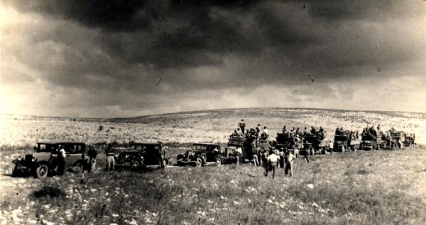 Going up to Jo'ara, establishment of Kibbutz Ein HaShofet, 1937